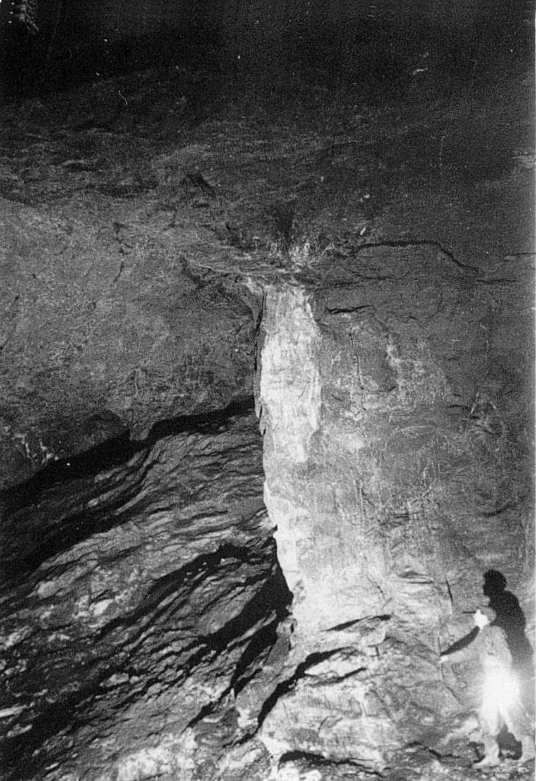 Sagmo-mine: drift and pillar mining at orebody dip of 45° (1953)